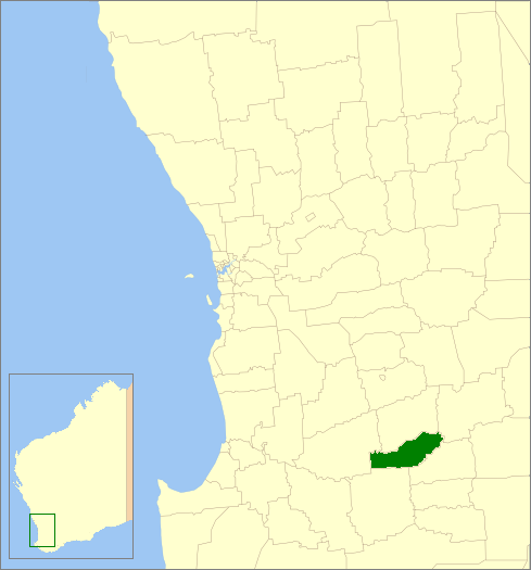 Description=Location of the Local Government Area in Western Australia